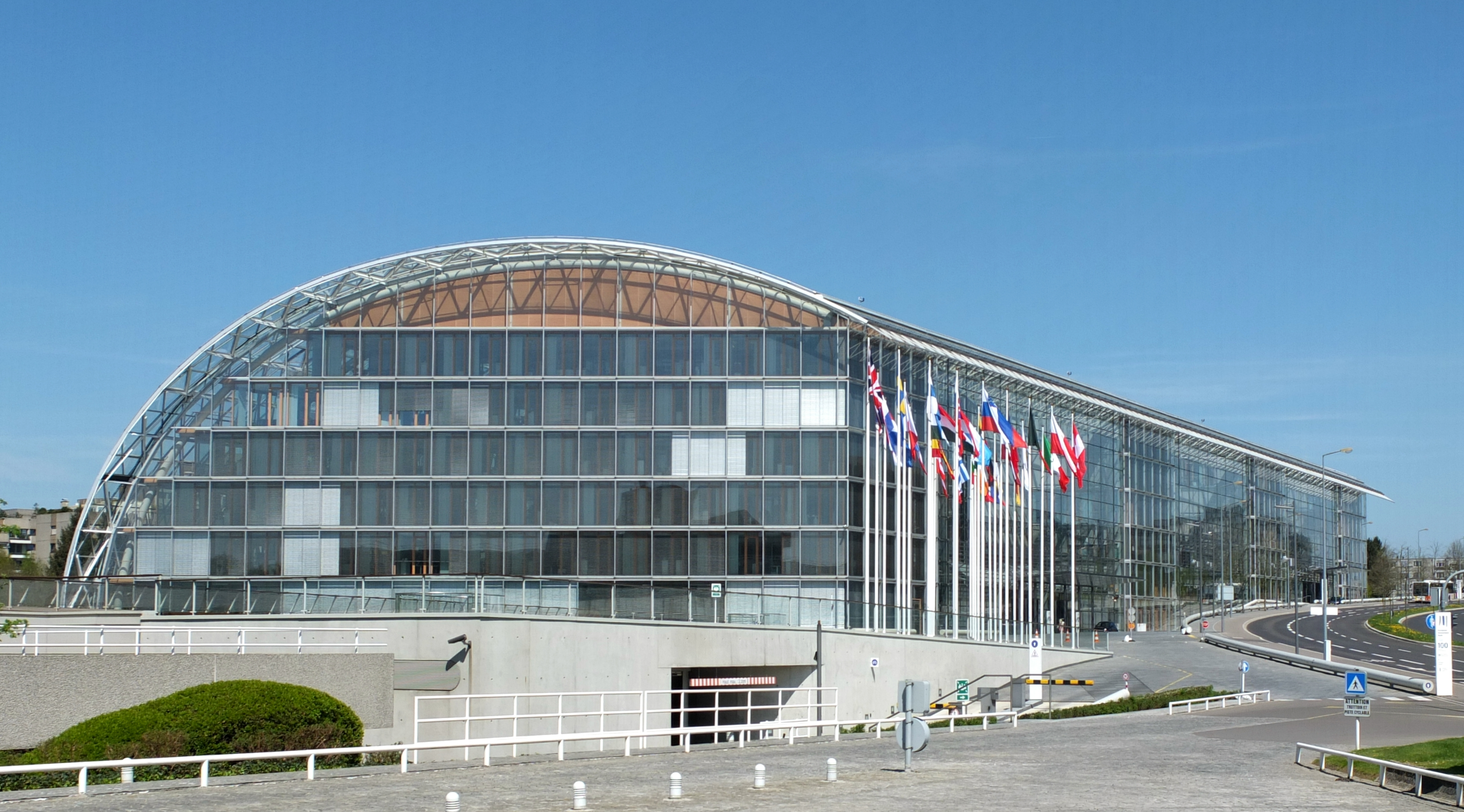 European Investment Bank Luxembourg (view from S)